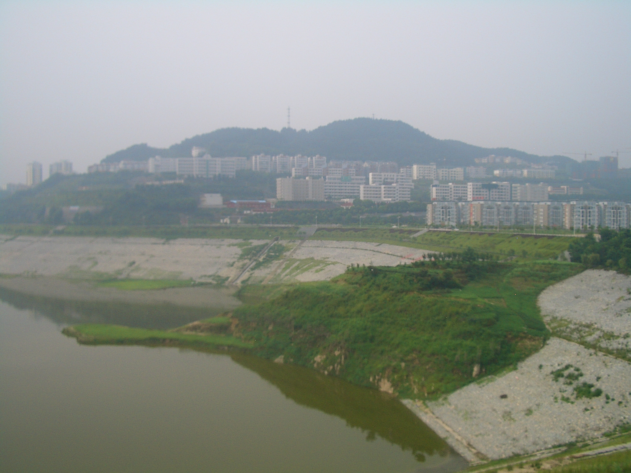 On the waterfront of Maoping Town (the county seat of Zigui County, Hubei), west of downtown (toward the passenger boat dock). The town is upstream of the Three Gorges Dam; note the Yangtze river banks, which probably can be flooded when the reservoir level is higher.